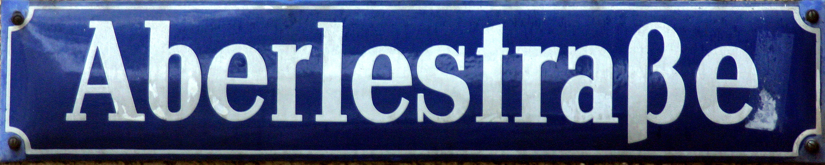 Street sign “Aberlestraße” in Munich-Sendling